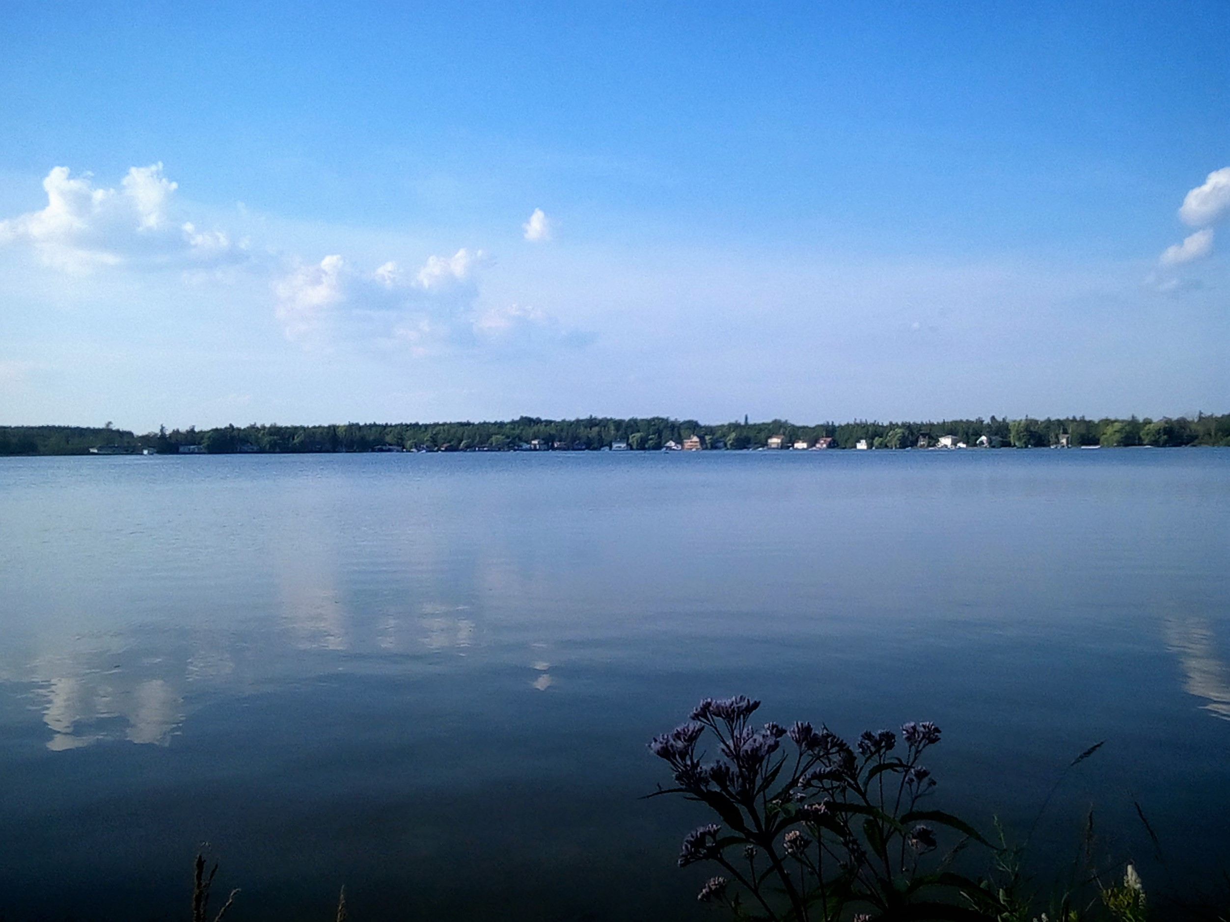 Beautiful natural lake. Valued piece of natural heritage.